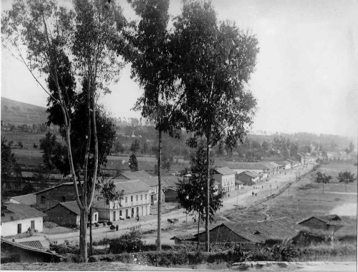 10 de Agosto avenue next to El Ejido park in Quito.